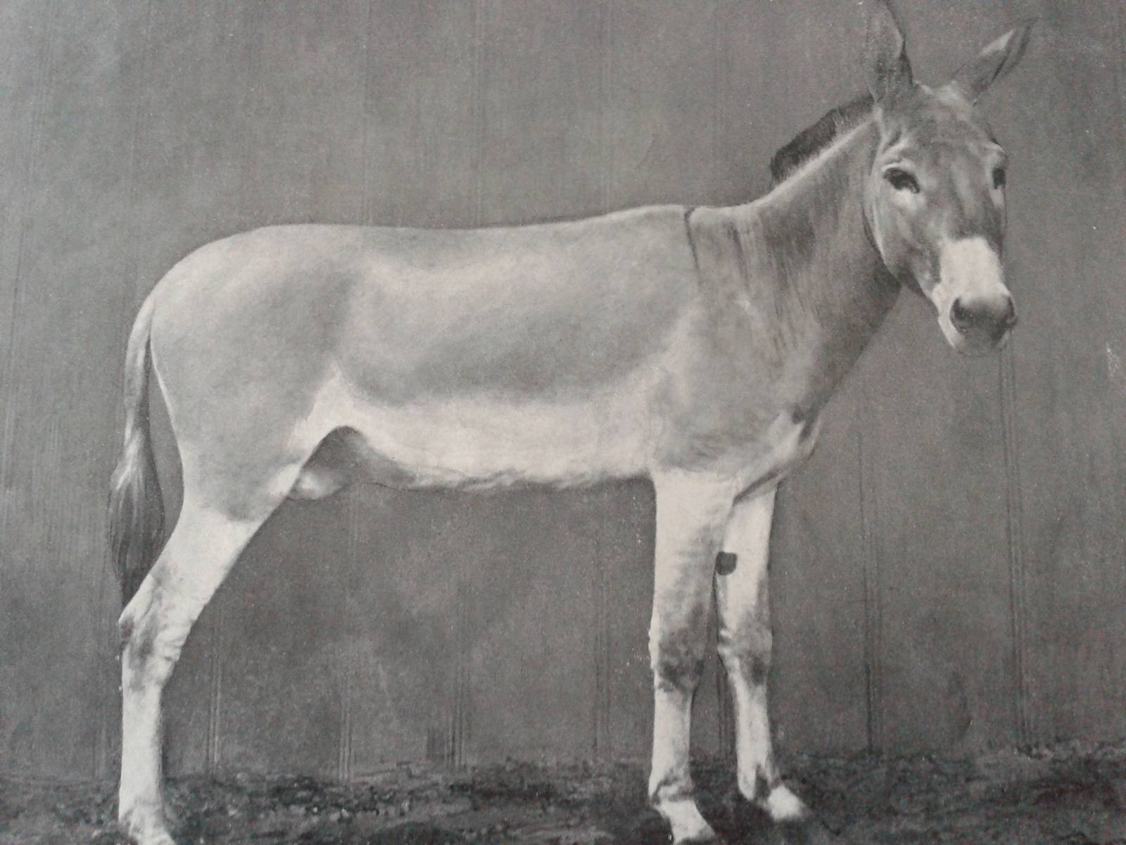 Nubian Wild Ass, at the Berlin Zoological Gardens (1899).